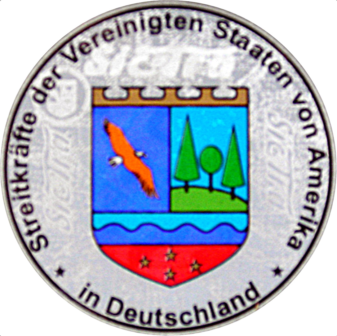 Seal "Streitkräfte der Vereinigten Staaten von Amerika in Deutschland" (USA) -- U.S. Armed Forces in Germany on a license plate for motor vehicles.